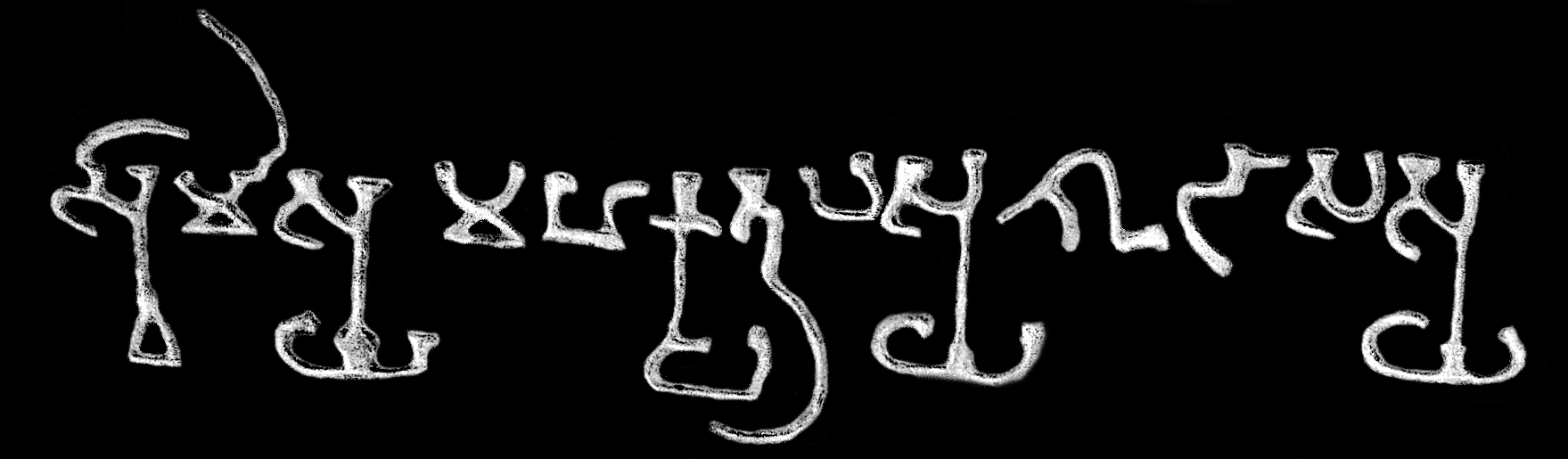 Svamisya Mahakshatrapasya Sudasasya (cleaned)